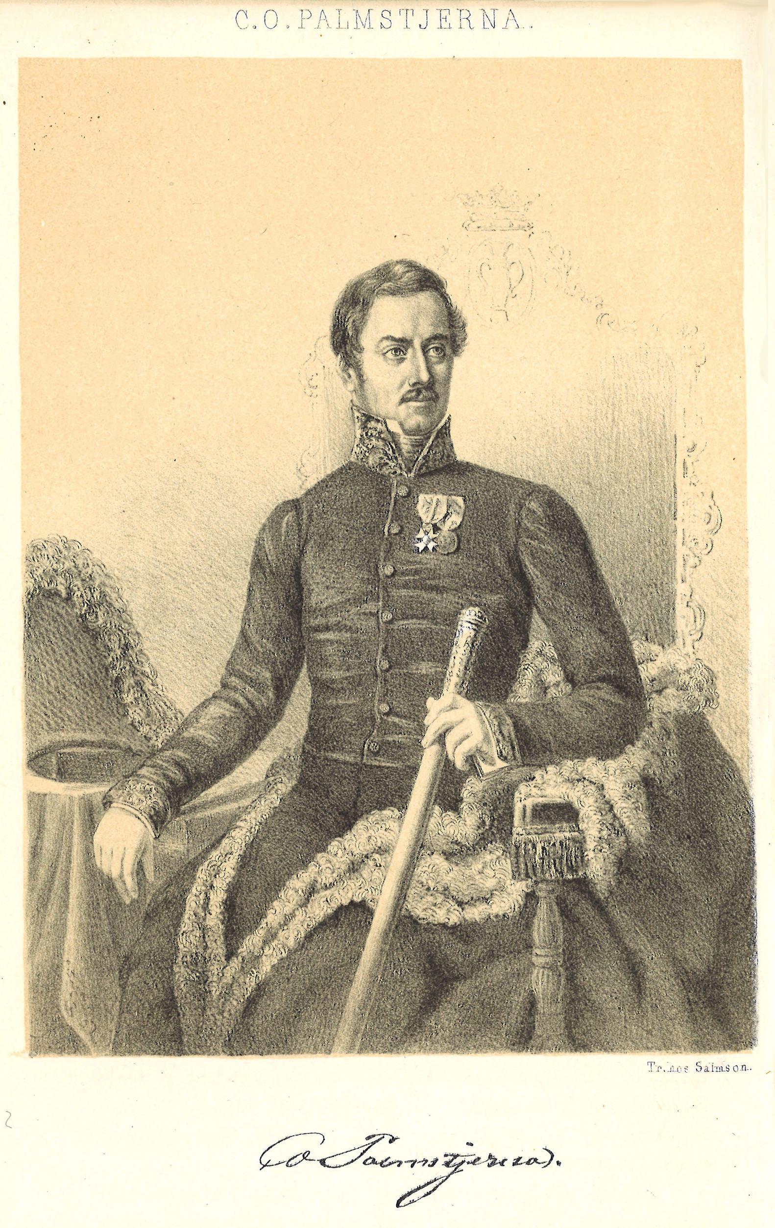 Otto Palmstierna (1790-1878), Swedish baron, officer, county governor, minister of finance and "lantmarskalk" (chairman of the estate of nobility).